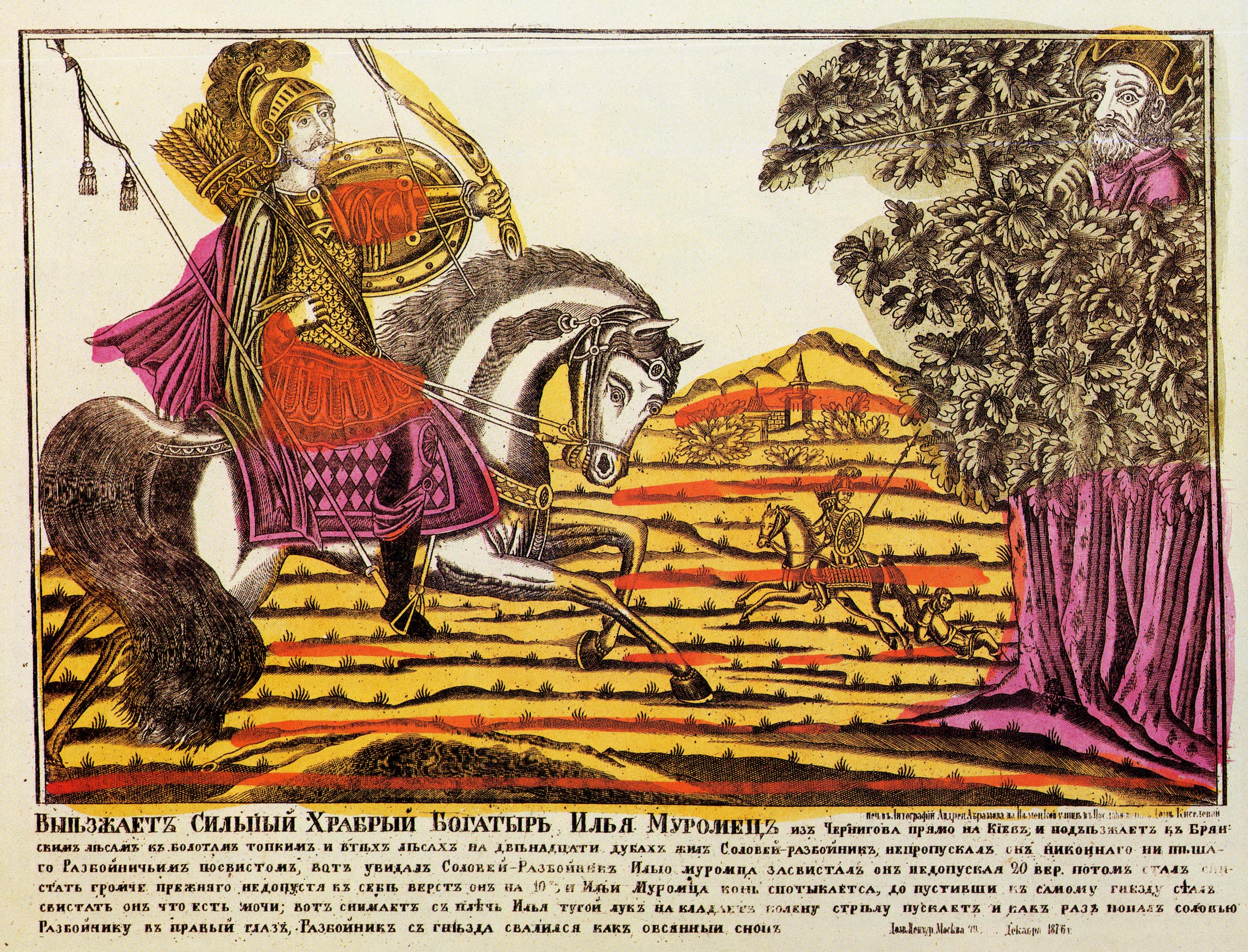 Russian lubok of XVIII c depicting Ilya Muromets and Nightingale the Robber.